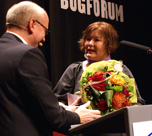 Janni Olesen, Danish writer, receives Debutantprisen 2008.